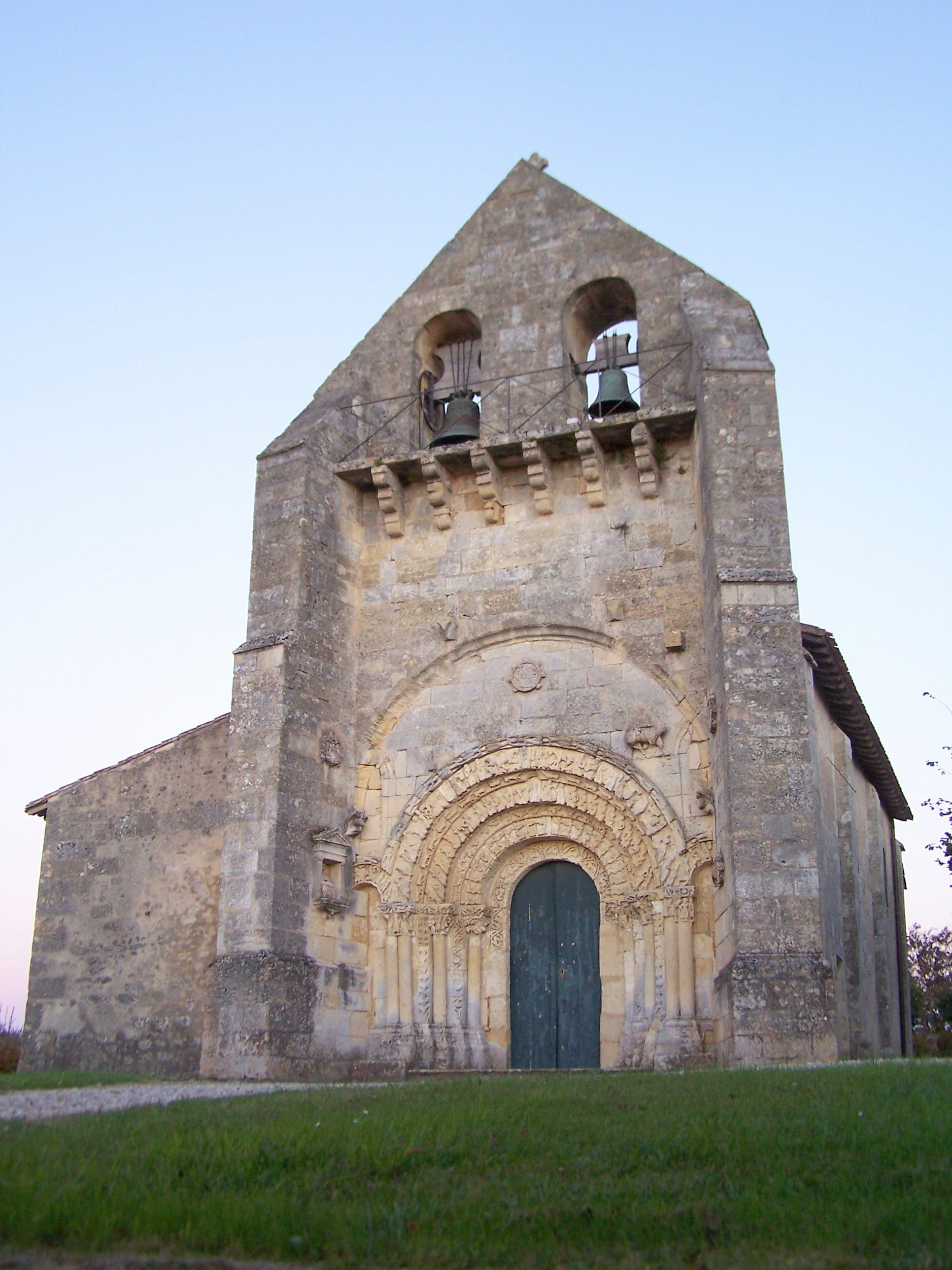 Saint Martin church of Haux (Gironde, France